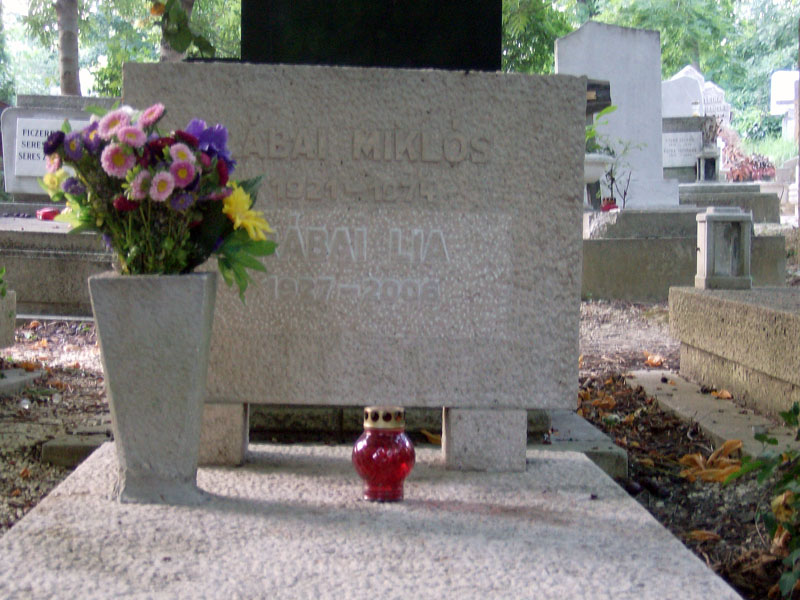 The tomb of Miklós Rábai and his beloved wife, Lia Rábai